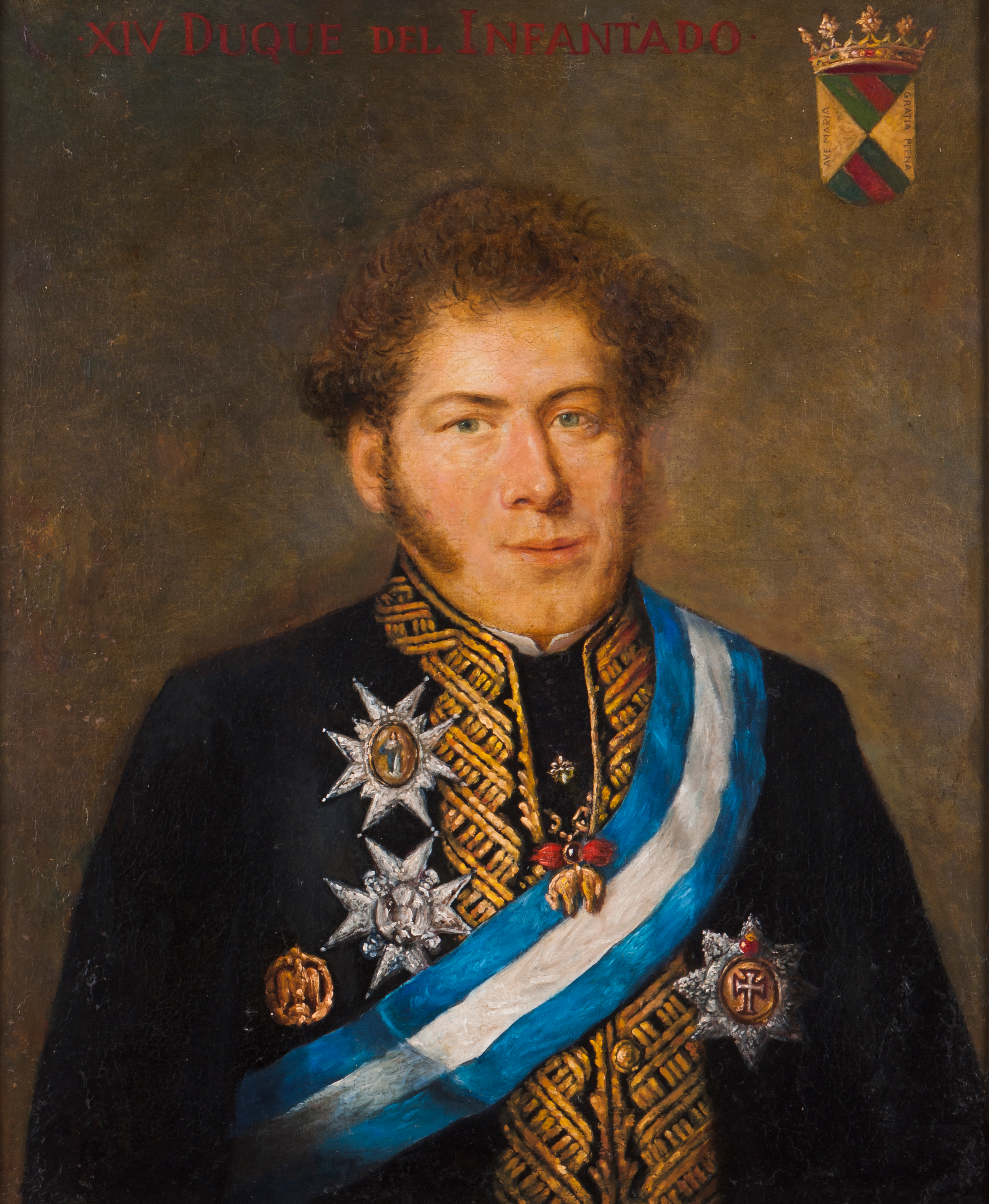 Pedro de Alcántara Téllez-Girón y Beaufort Spontin, 14th Duke of the Infantado